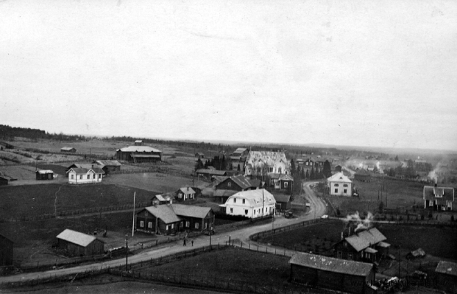 Korpiselkä centrum.